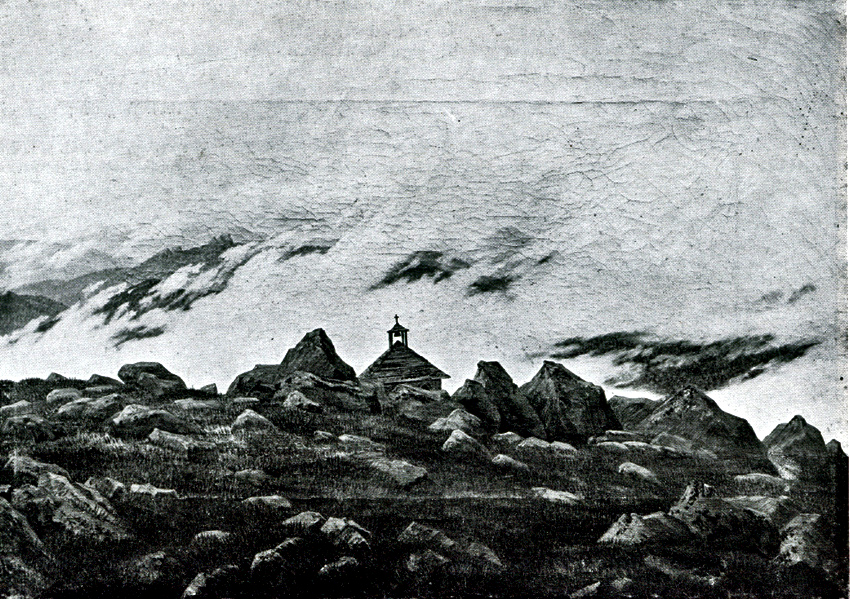 Mountain Chapel in the Mist, by Caspar David Friedrich, painted in 1814. The painting was destroyed or disappeared in Berlin in May 1945, in the Friedrichshain flak tower fire. - Dimensions: 32 x 45 cm - Oil on canvas